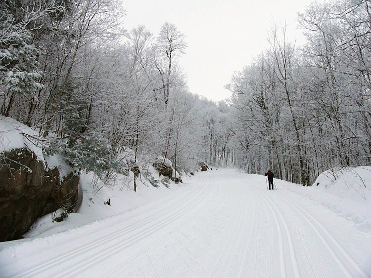 I took this photo of cross country skiing at Gatineau Park, Quebec on 19 December 2007